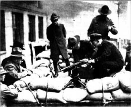 Police setting up a mounted machine gun to maintain control during the general strike by Seattle workers.